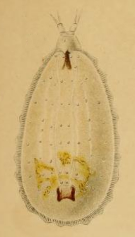 Microdon Eggeri larva, Just hatched, seen from above. (valid synonym = Microdon analis)